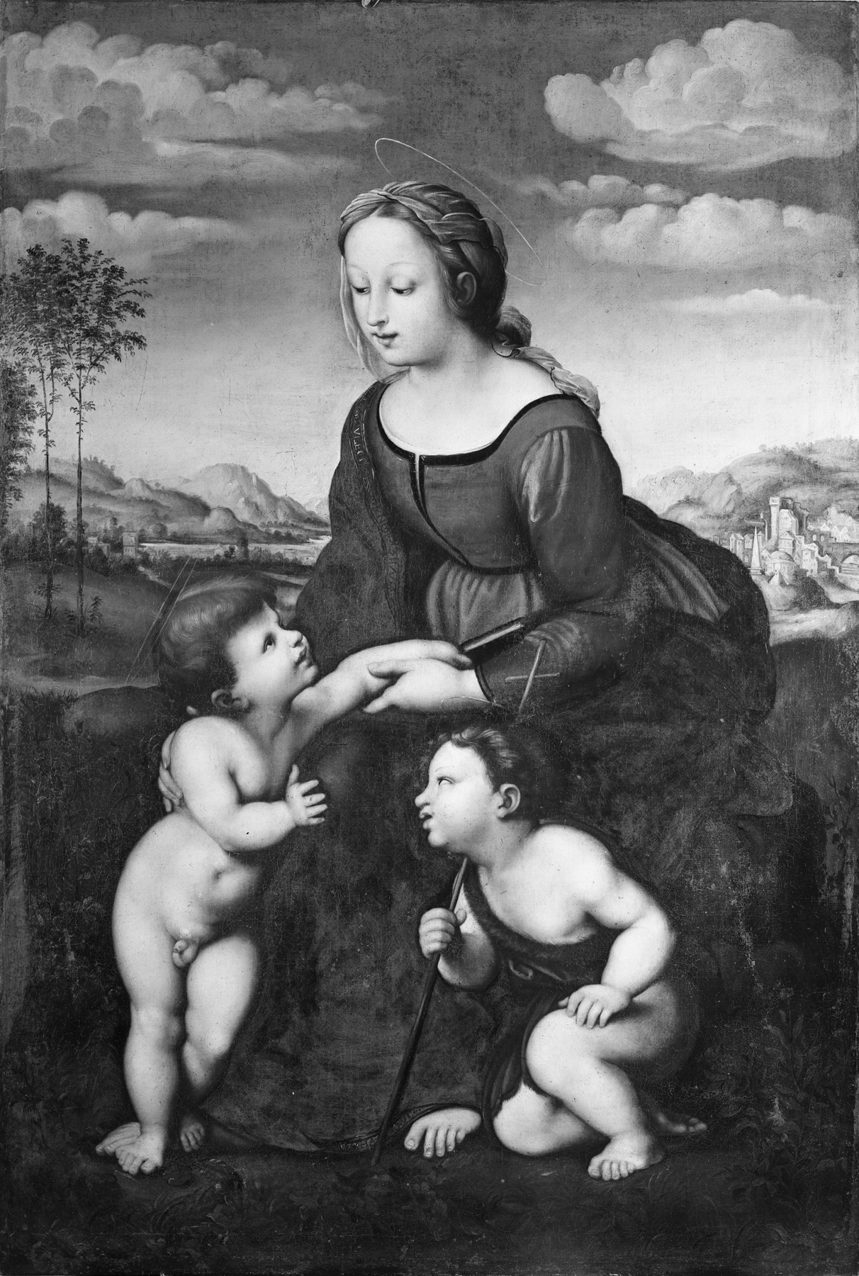 This is a copy after Raphael's famous painting known as "La Belle Jardinière," "the beautiful gardener," painted ca. 1507, in the Louvre, 122 × 80 cm (48 × 31½ in.). The Walters copy is only slightly smaller. Although Raphael's painting was commissioned by a Sienese patron, for most of its history it has been in France. It is difficult to date copies, but this one could be from the later 1600s when the original painting is known to have belonged to Louis IV.